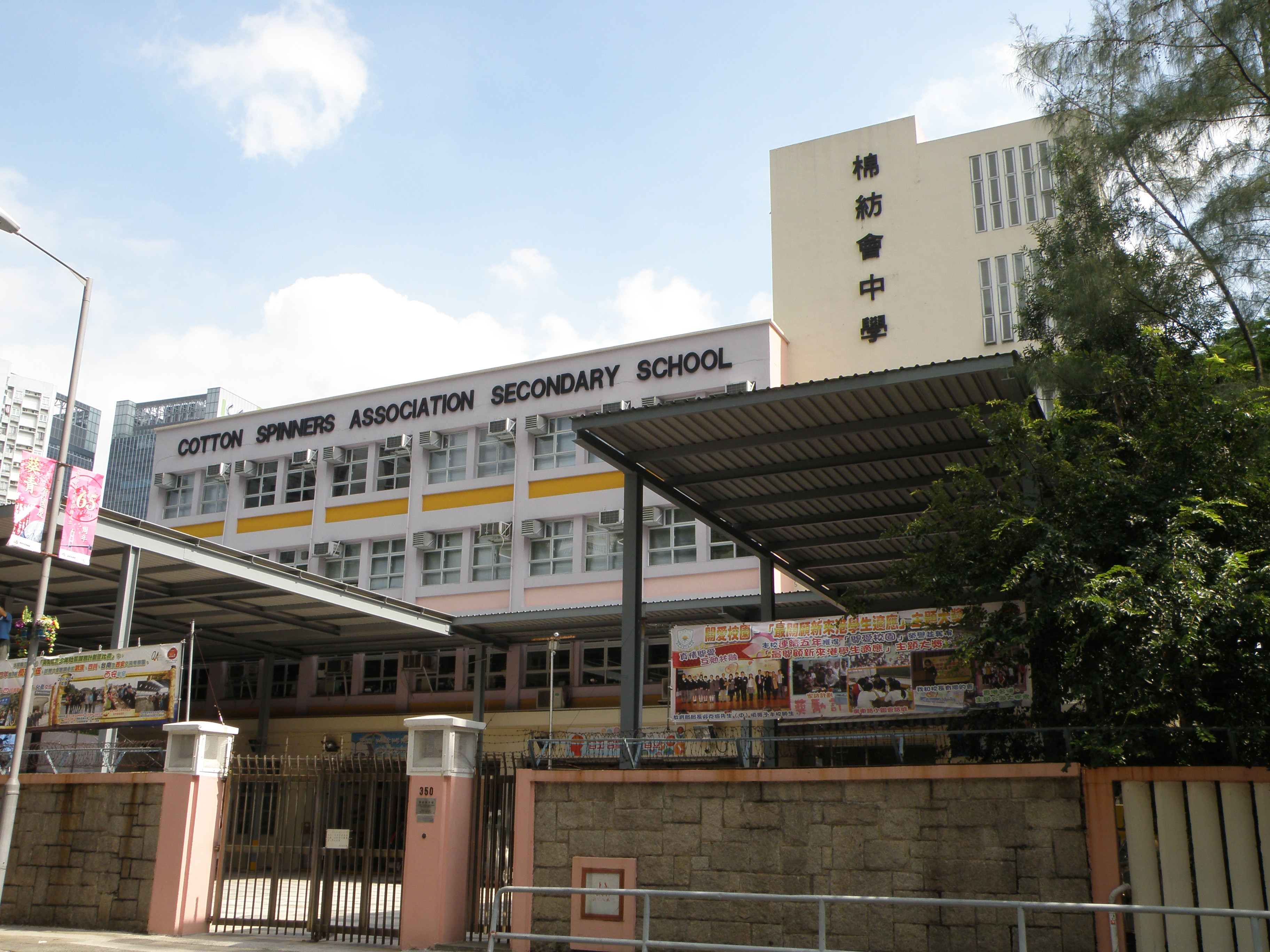 Cotton Spinners Association Secondary School in Kwai Chung, Hong Kong.